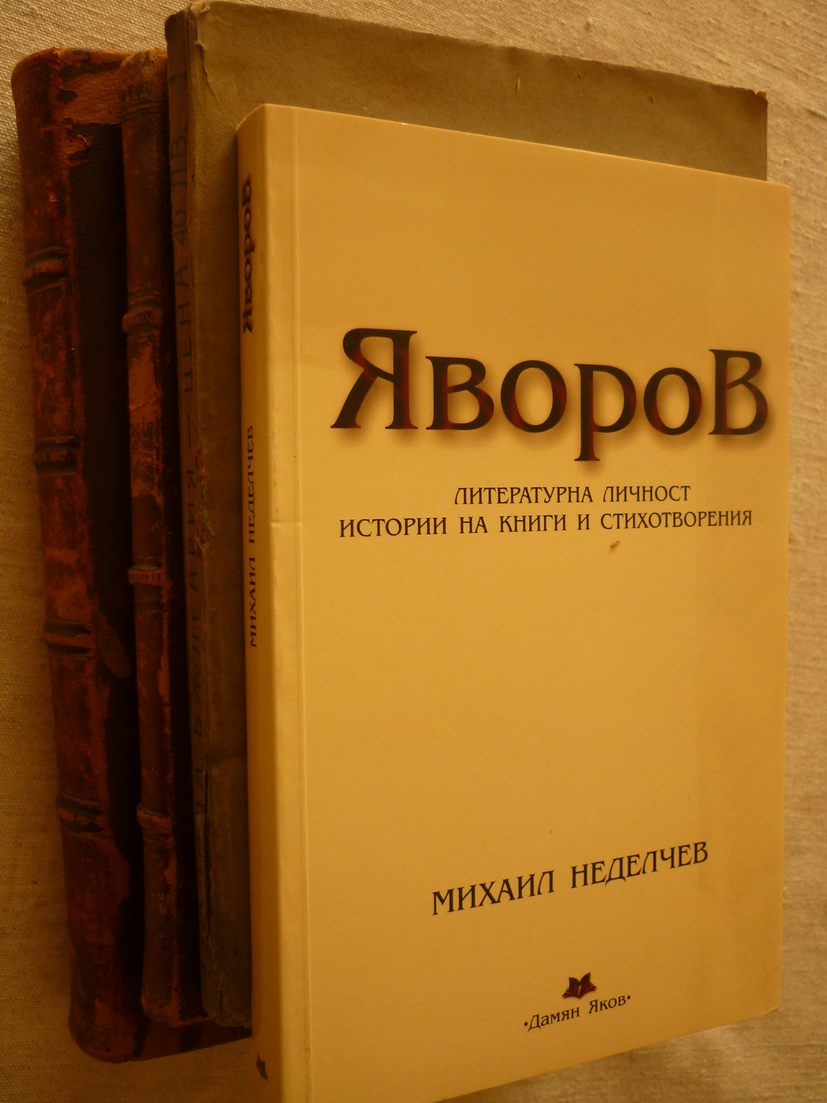 „Yavorov. Literary personality, histories of books and poems“, cover of the first Bulgarian edition, 2004